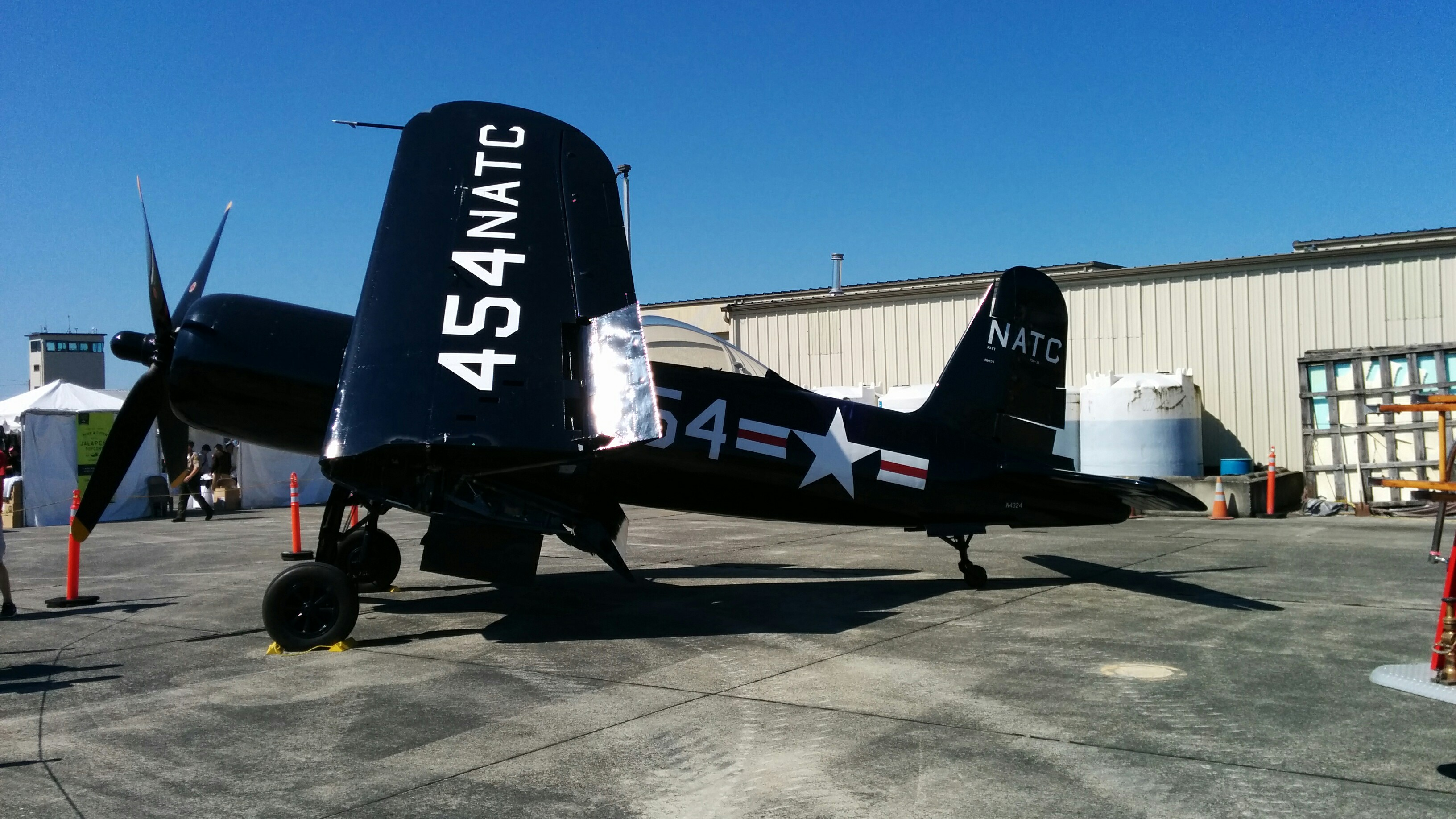 The Boeing Museum of Flight's F2G-1 Corsair, BuNo 88454, on display at Paine Field, Everett, WA on 26 July 2014